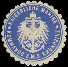 Sealing stamp Title: K. Marine Kommando S.M.S. Kronprinz Description: Schiff Place: size: cm